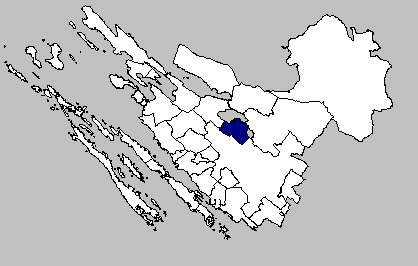 Self-made map of the Novigrad municipality within the Zadar County.